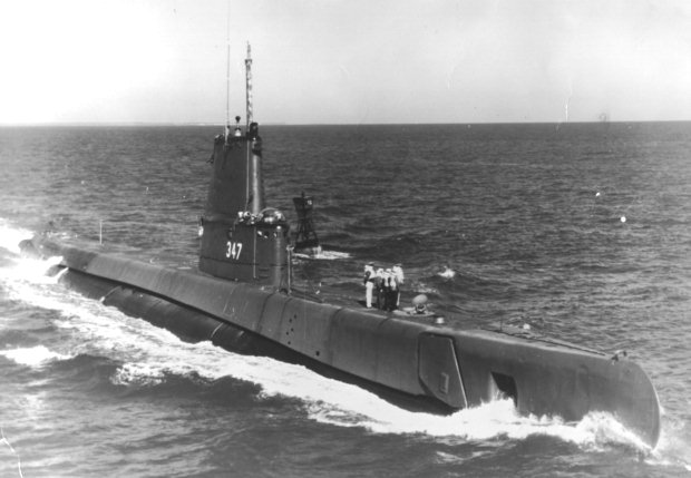 USS_Cubera; Cubera (SS-347), underway, date and place unknown. US Navy photo courtesy of George M. Arnold.